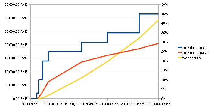 China Tax Diagram 2011